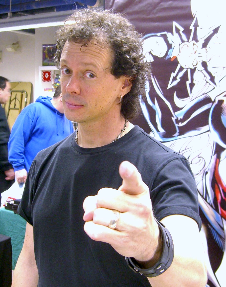 Artist Brian Pulido at the November 2008 Big Apple Convention in Manhattan.Photographed by Luigi Novi. This photo is not in the public domain. It may, however, be used, modified and published for any purpose, free of charge, only if an easily visible credit to the photographer is placed near the photo in each instance in which it is used. (See licensing information below.) Publication of this photo without this proper attribution constitutes copyright infringement. For more information on my photos, you can contact me here.